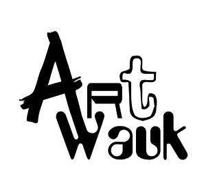 ArtWauk is a popular event in Waukegan, Illinois.